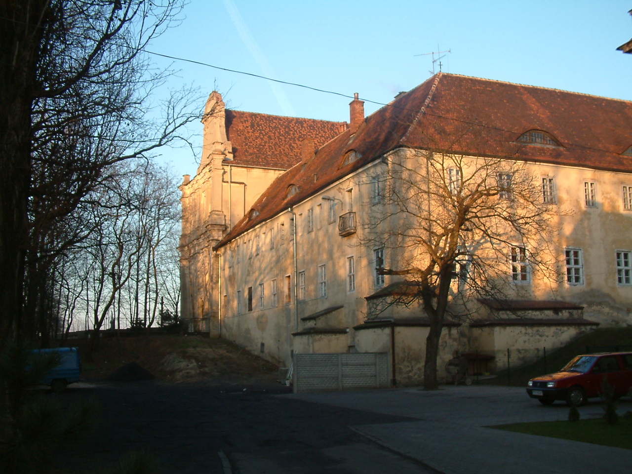 St. Casimir Polish Catholic Church in Poznań.